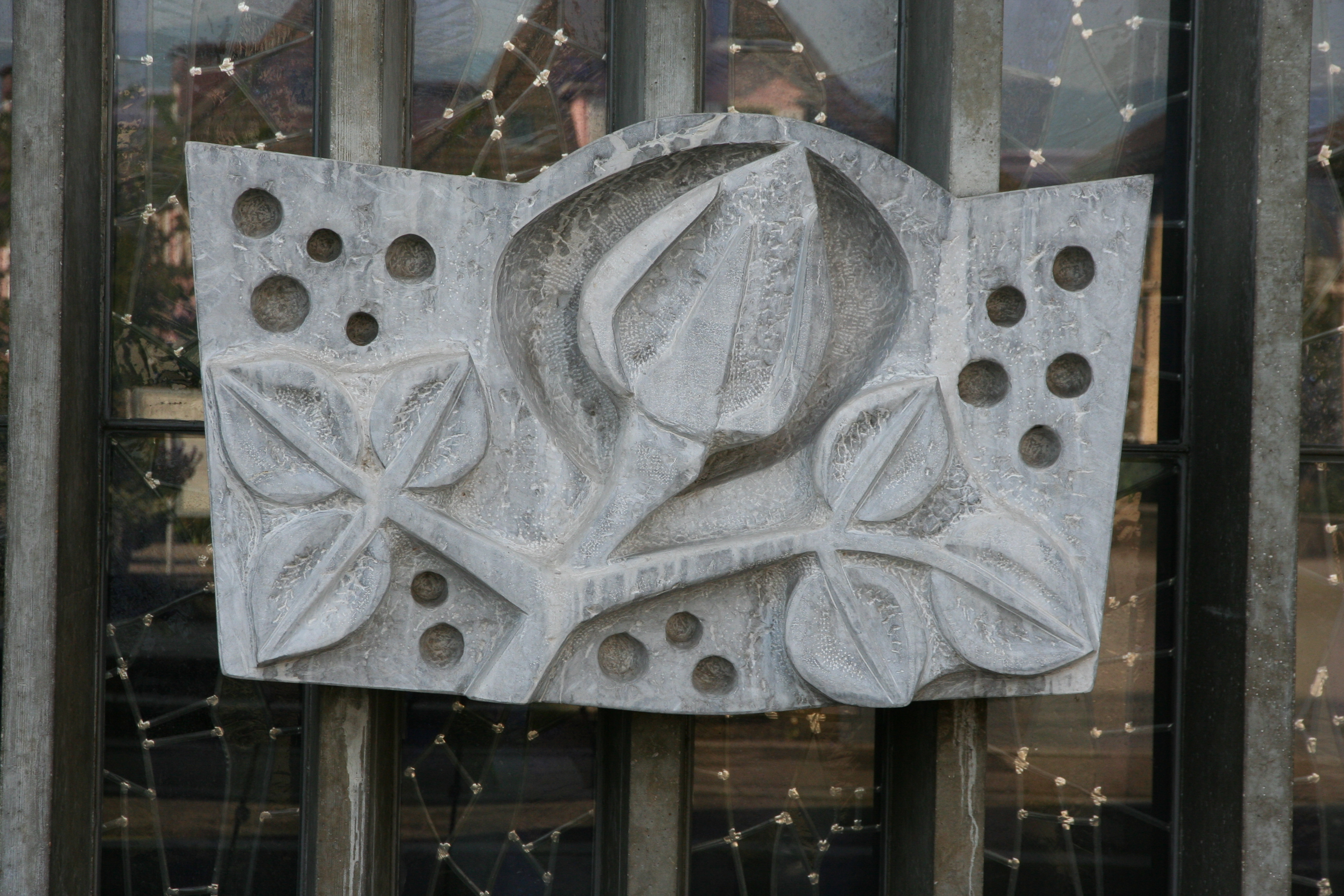 Church Bruder Klaus Gerlafingen, Switzerland